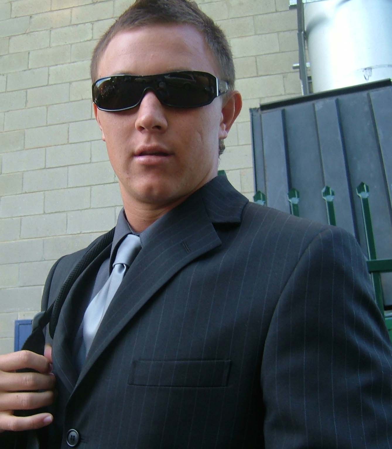 Former Parramatta half back Tim Smith